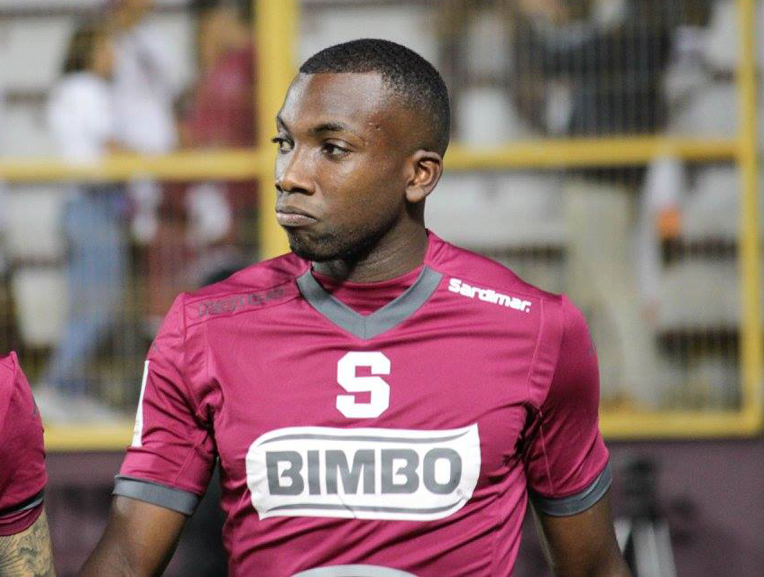 Mynor Escoe playing with Saprissa on October 28th, 2015.